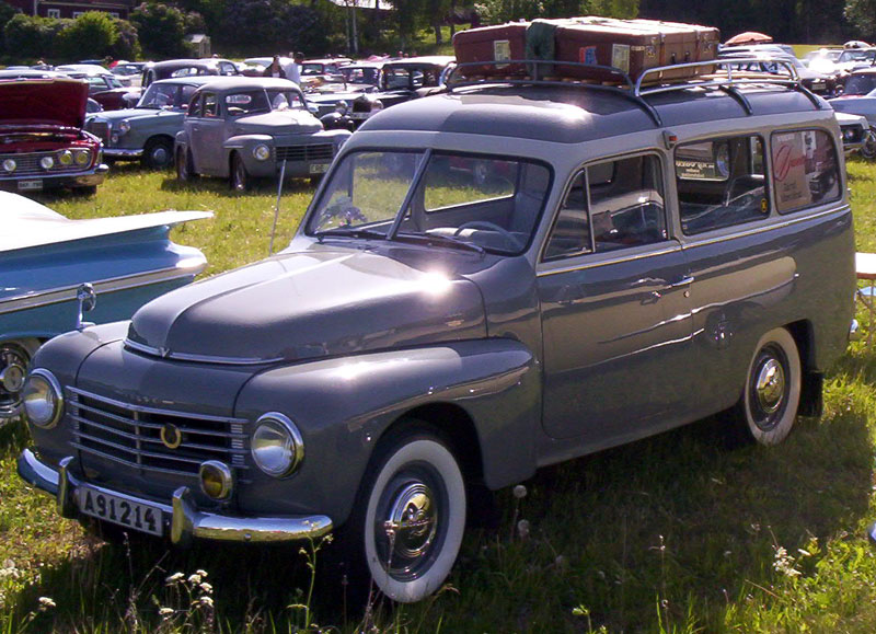 Volvo PV 445 Duett Station Wagon